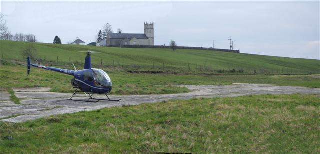 St Angelo A panoramic view with Trory Church of Ireland on top of the hill.